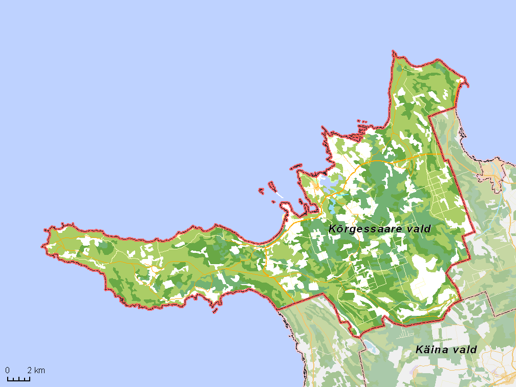 Map of municipality in Estonia